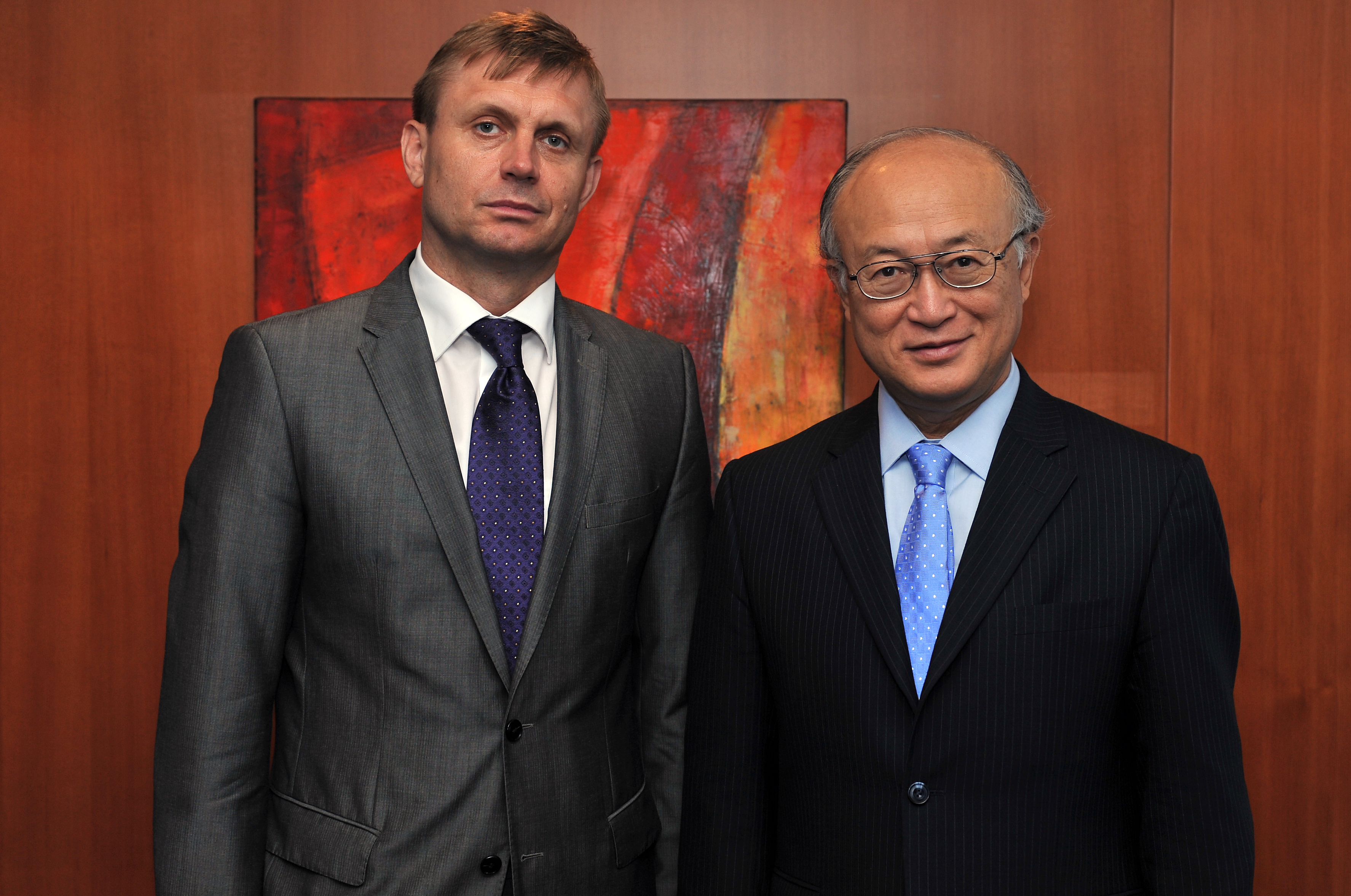 Presentation of credentials of the new Resident Representative of Moldova, Ambassador Valeriu Chiveri, to IAEA Director General Yukiya Amano. IAEA, Vienna, Austria, 23 July 2010 Copyright: IAEA Imagebank Photo Credit: Dean Calma/IAEA